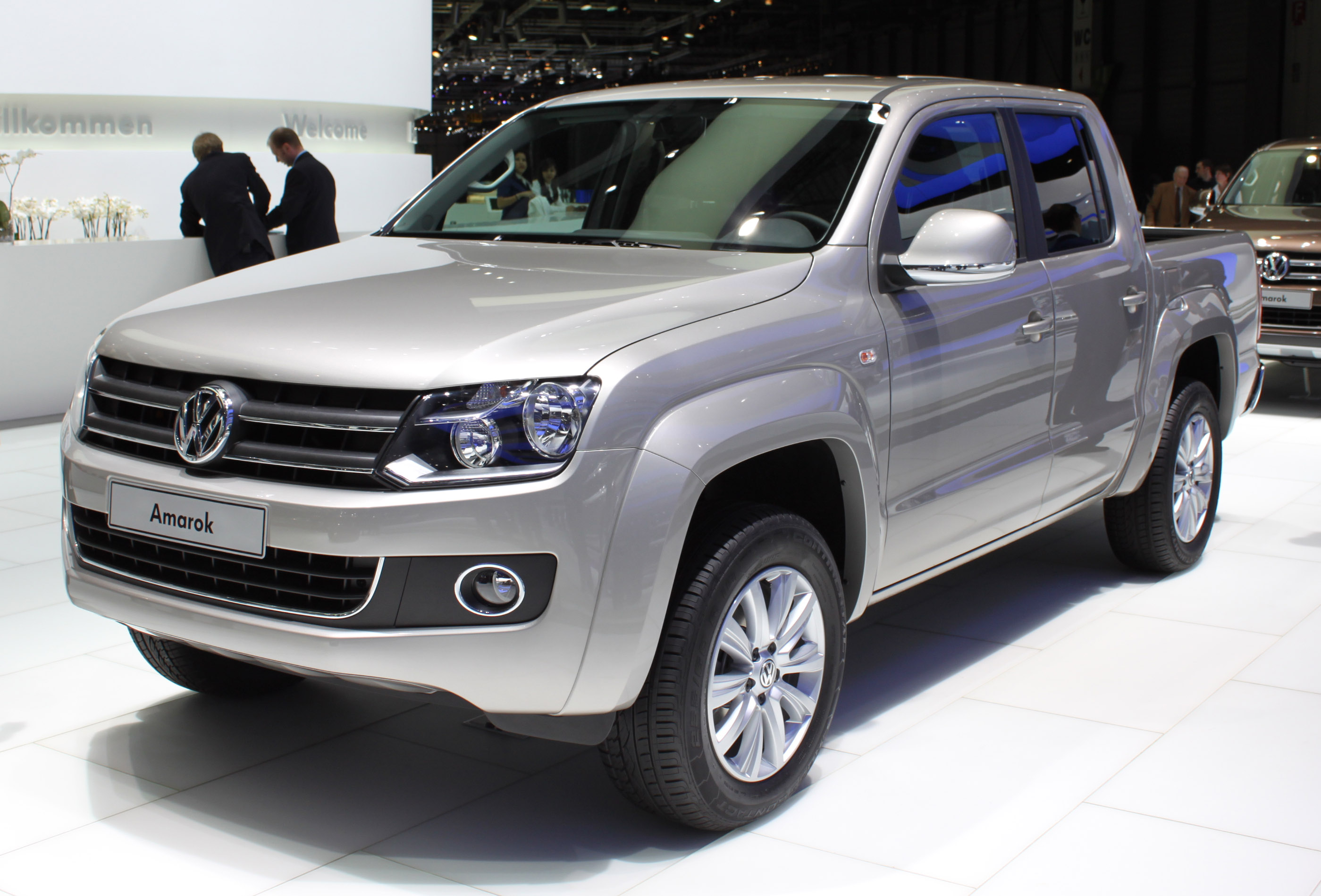 VW Amarok at the 2010 Geneva Motor Show